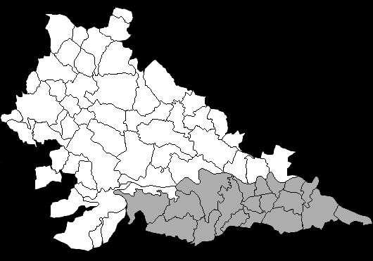 Maps of Oltrepò mantovano (Italy)